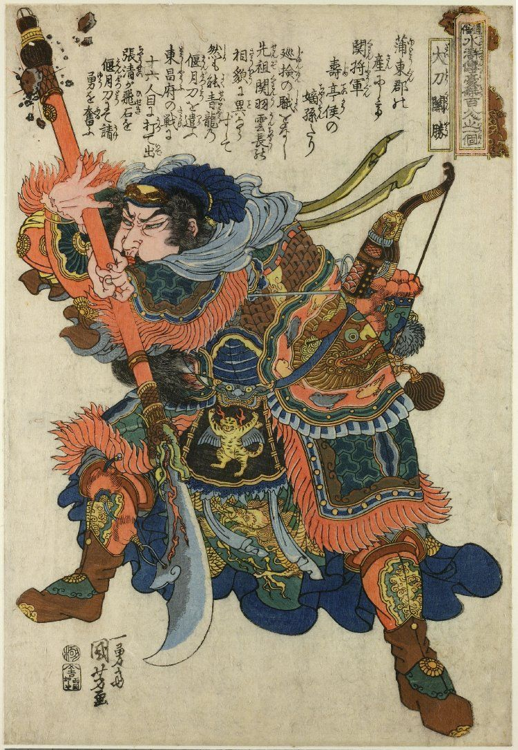 Guan Sheng (關勝) catching stone on halberd handle at battle of Toshofu.